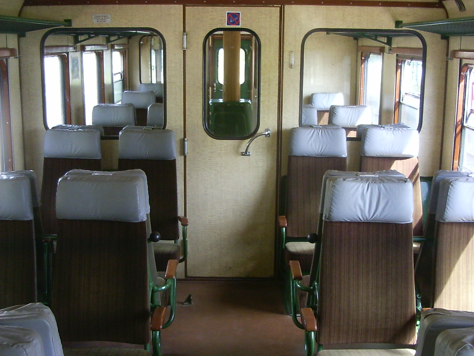 Passenger space of a Y7 railbus